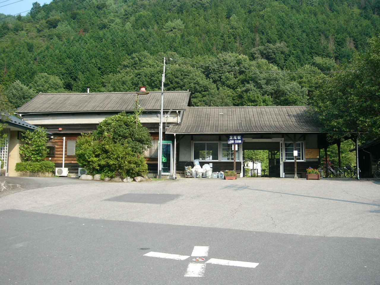 Ashio Station